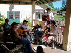 Vancouver Folk Song Society archives.